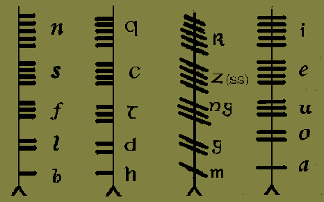 Ogham alphabet. Created by User:Jor using Microsoft Paint.